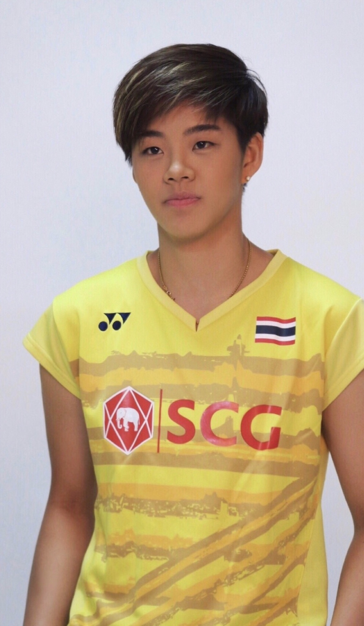 name = Sapsiree Taerattanachai nickname = Popor date of birth = 18 April 1992 height = 169 weight = 57 country = Thailand sport = Badminton place = SCG Academy